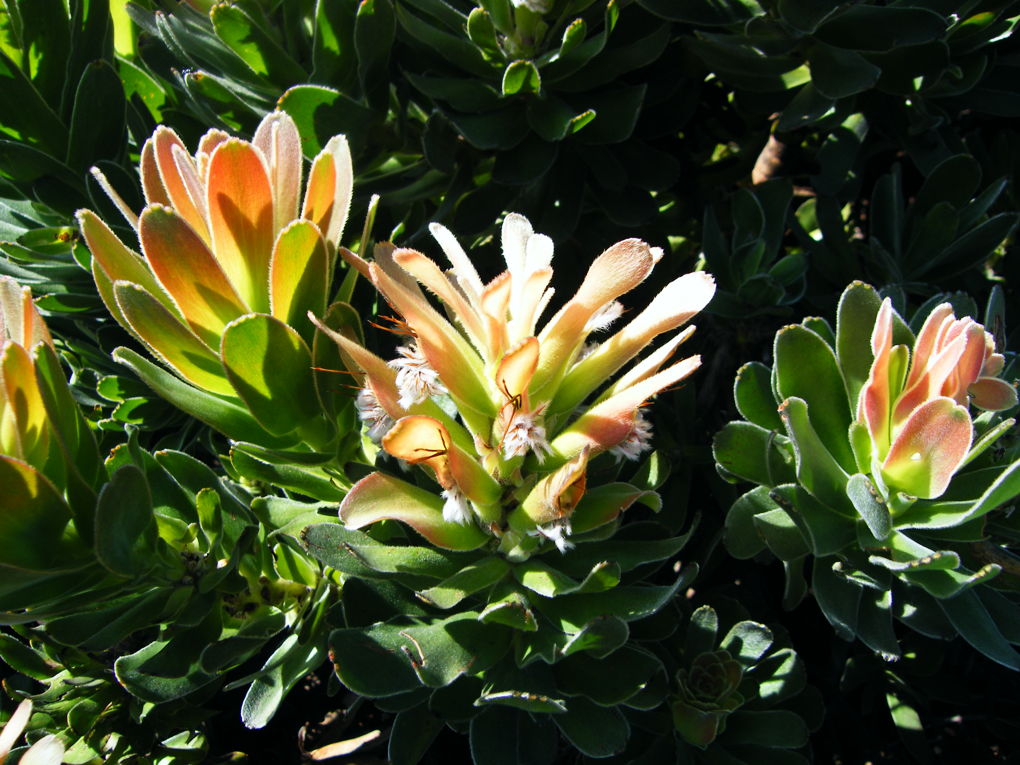 Tree Pagoda